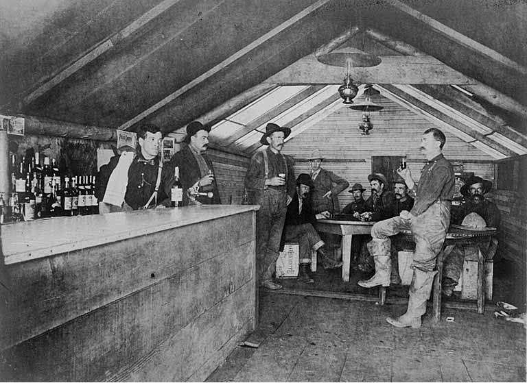 Men gathered for a drink in the Road House Saloon, Bluff City, Alaska, ca. 1906 Photographer: Dobbs, B. B. (Beverly Bennett) Subjects (LCSH): Road House Saloon (Bluff City, Alaska) Digital Collection: Alaska, Western Canada and United States Collection Item Number: AWC3303 Persistent URL: Visit Special Collections page for information on ordering a copy. University of Washington Libraries. Digital Collections